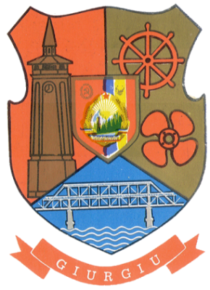 Communist coat of arms of Giurgiu municipality, Ilfov County, Socialist Republic of Romania.